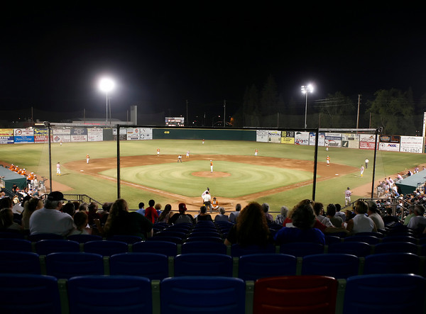 Appeal-Democrat Park at night during a Gold Sox game